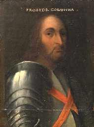 File:RetratoColonna,jpg downloaded, photoshopped to lighten the image, reloaded